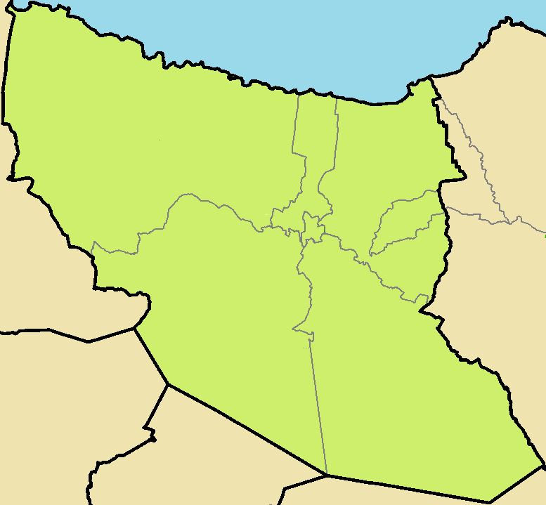 Lapithos Municipality with quarters (de jure).